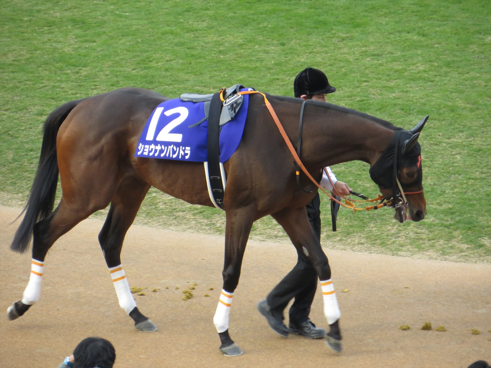 Shonan Pandora (Racehorse of Japan) in 39th Queen Elizabeth II Commemorative Cup, Kyoto Racecourse.